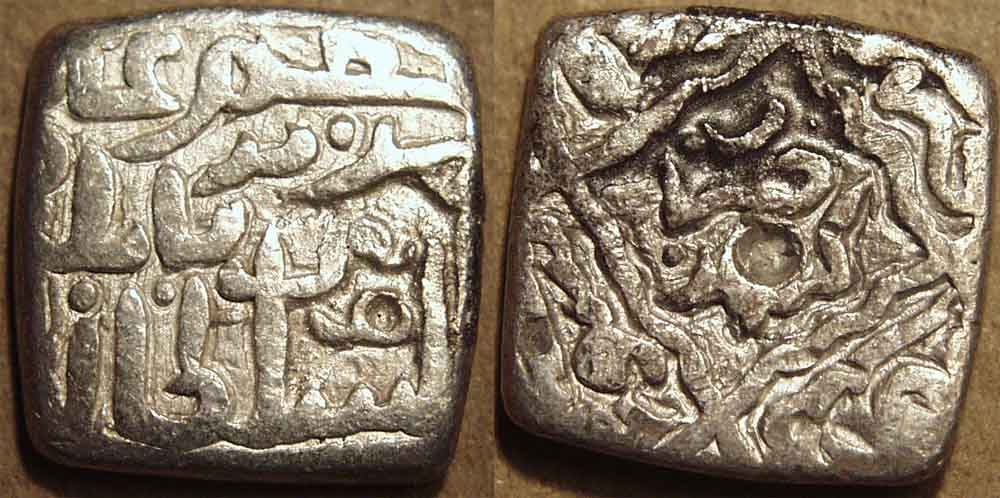 Silver sasnu of Haidar Dughlat minted in 1533 in Kashmir in the name of Sa'id Khan of Kashgar.